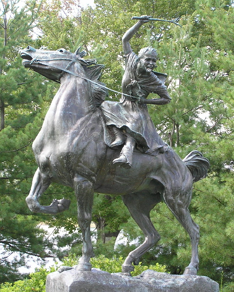 Statue of Sybil Ludington on Gleneida Avenue in Carmel, New York by Anna Hyatt Huntington